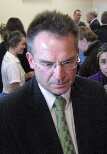 Jon Stanhope, photographed on 19th June, 2006, at the Tuggeranong Community Centre, Australian Capital Territory.